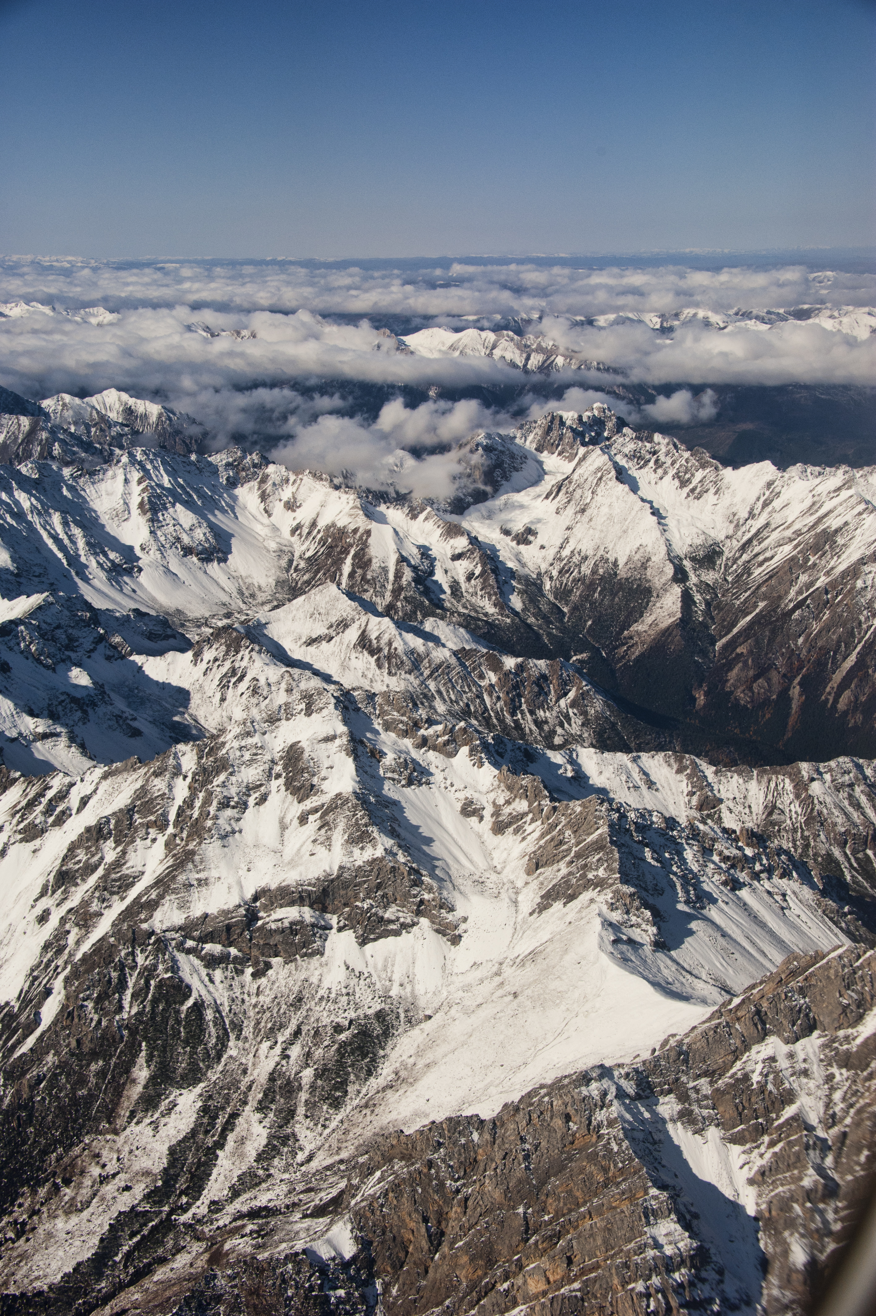 aerial aeroplane view of mountain ranges in sichuan china jiuzhaigou huanglong autumn 2011 min mountains minshan